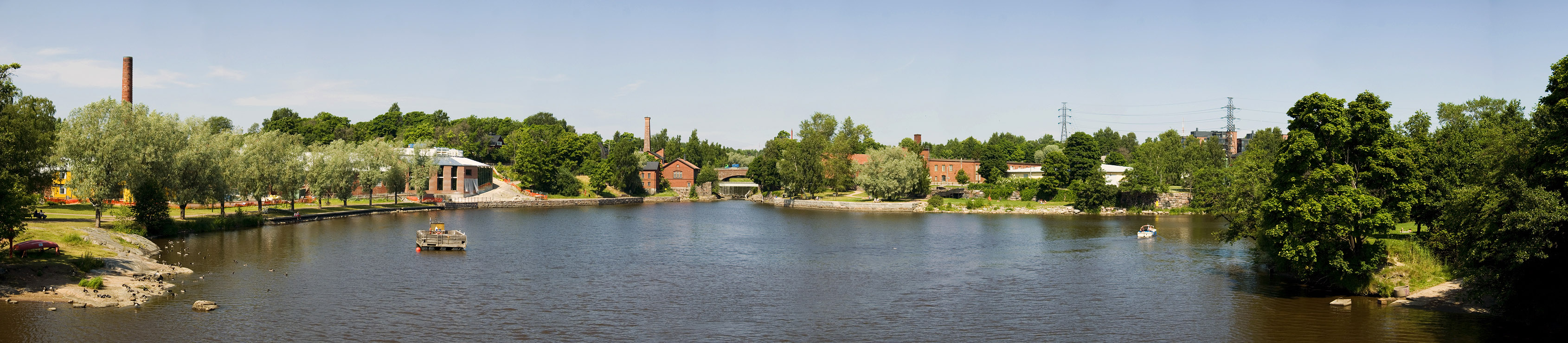 Vanhankaupunginlahti in Helsinki, Finland